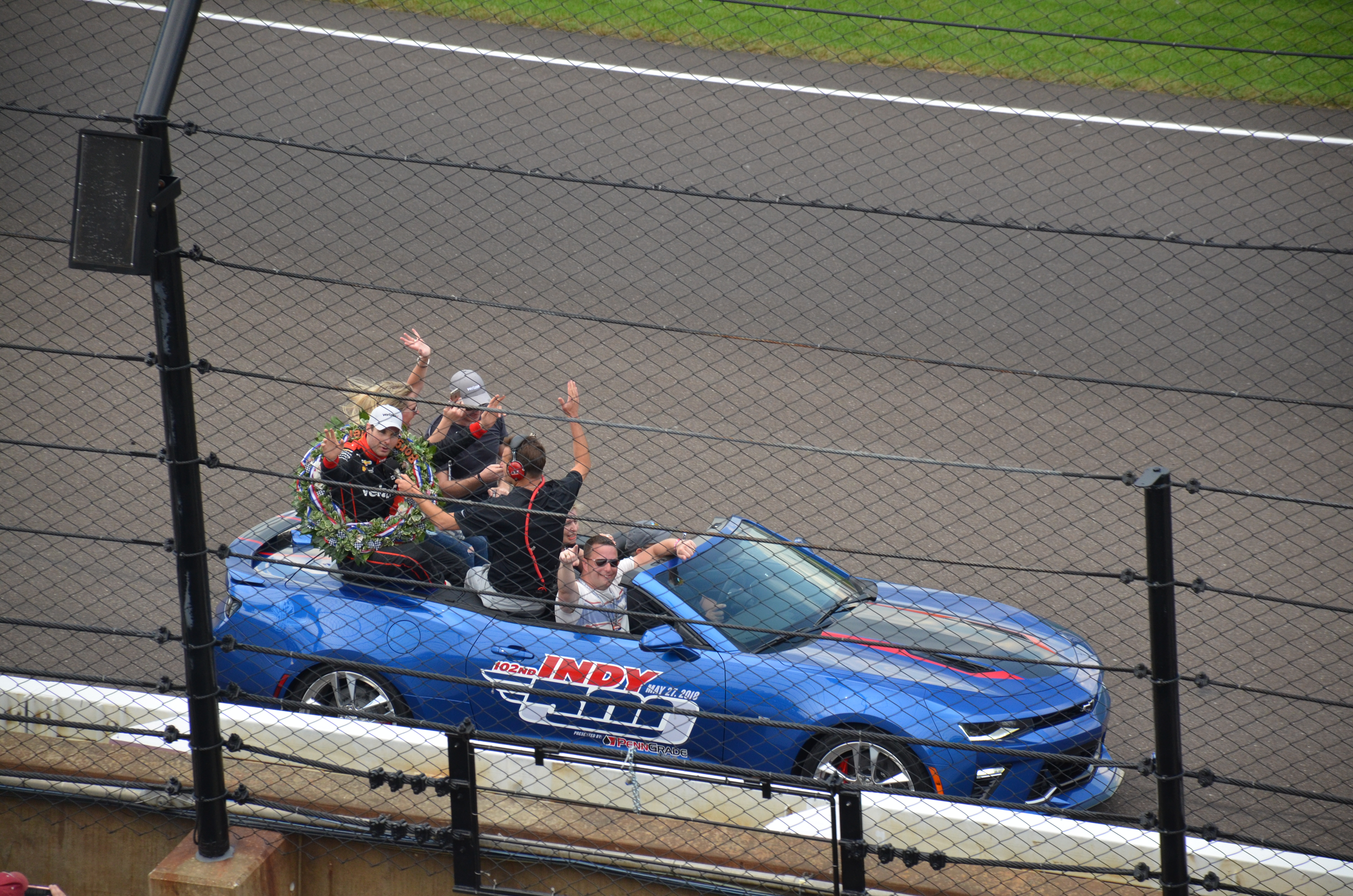 Will Power celebrates on victory lap at the 2018 Indianapolis 500